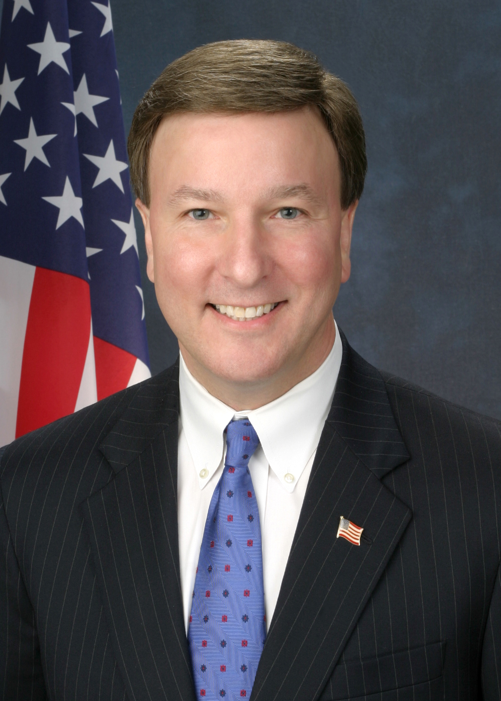 Mike D. Rogers, member of the United States House of Representatives.